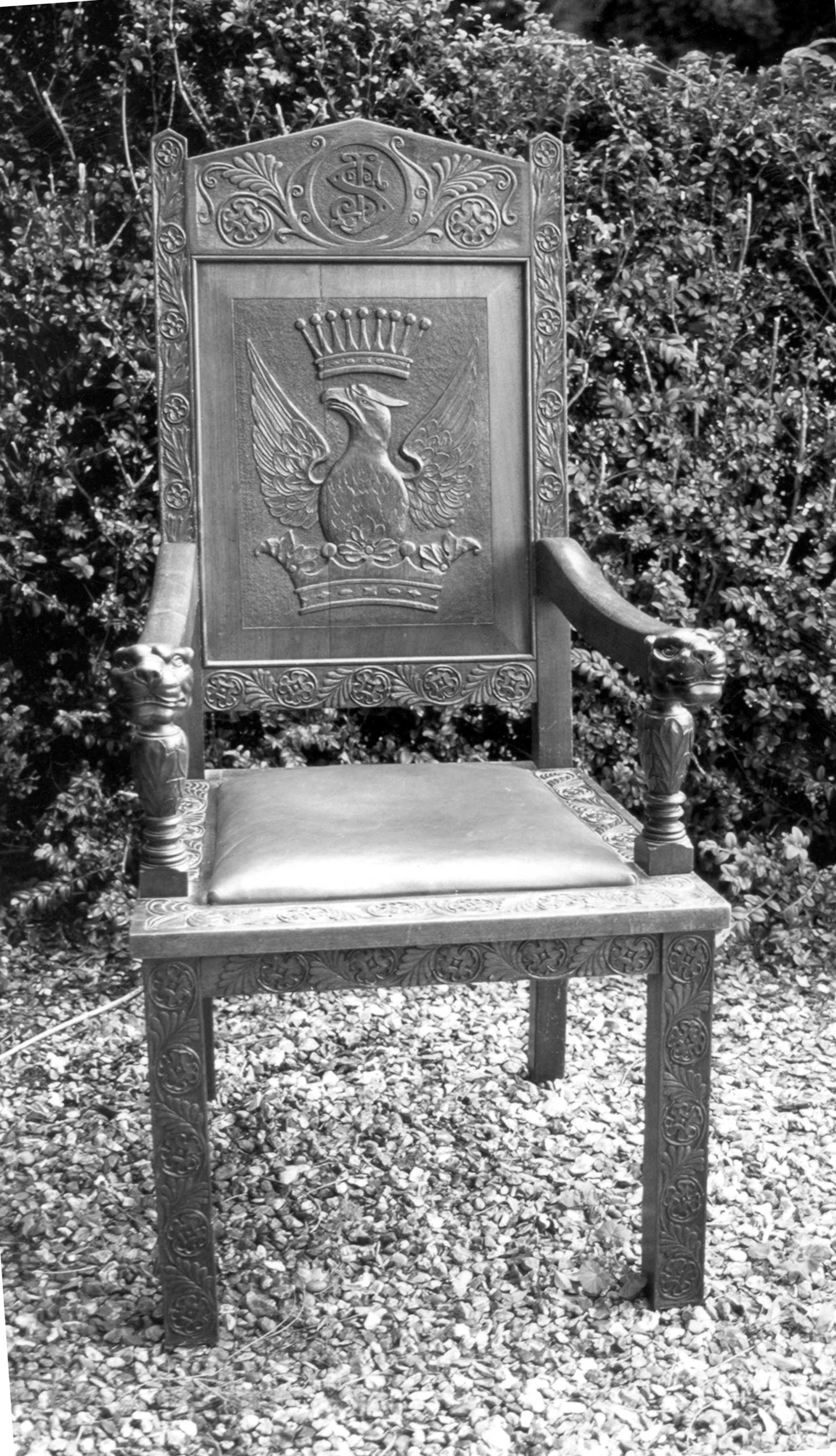 An early 20th-century chair made in eastern AustraliaSoomaaliga: Kulankii hore ee qarnigii 20-aad ee laga sameeyay bariga Australia